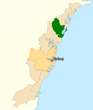 This image incorporates data that is: © Commonwealth of Australia (Australian Electoral Commission) 2009 Division of Dobell 2010